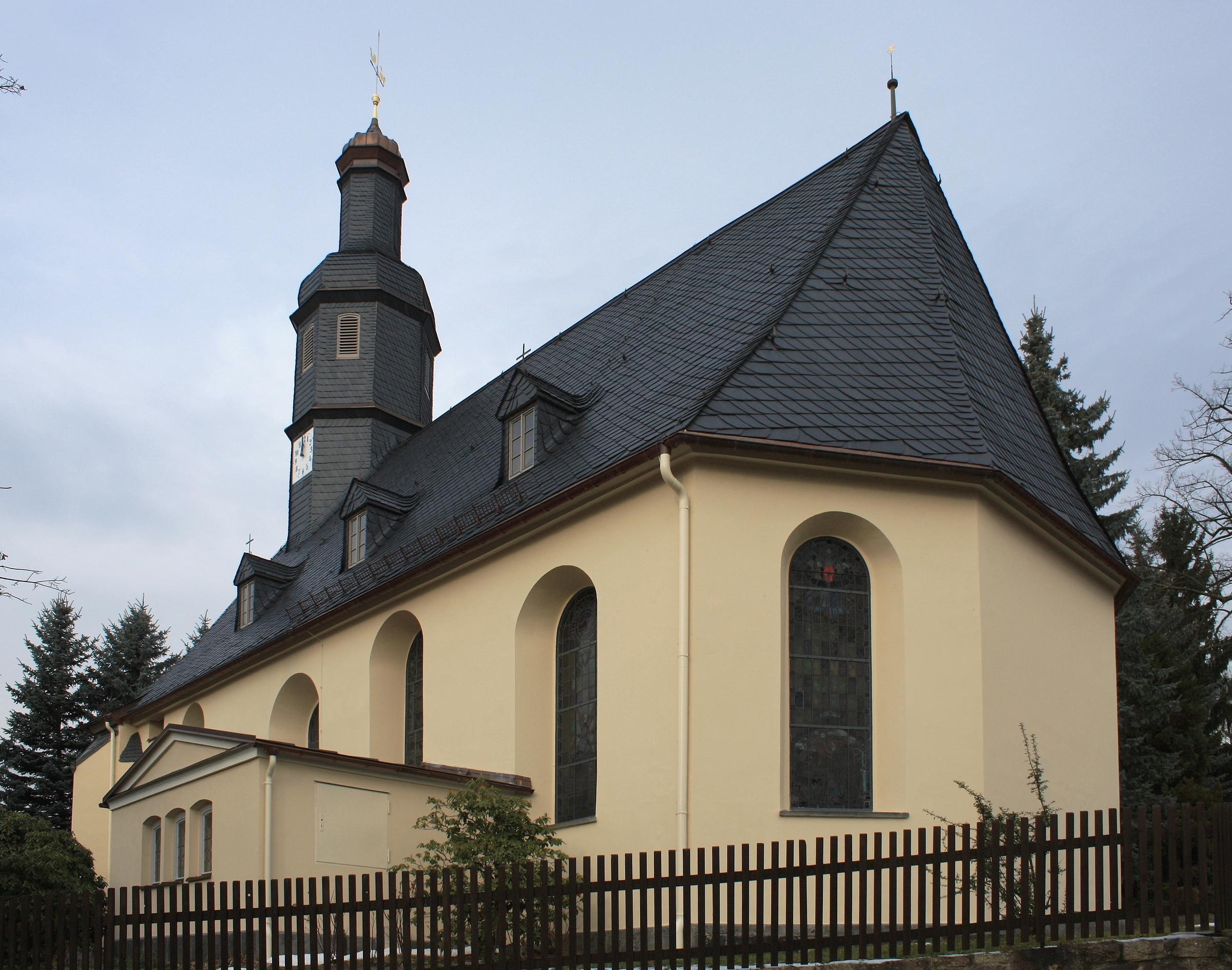 Lauter/Sachsen, church (1628), view from SE